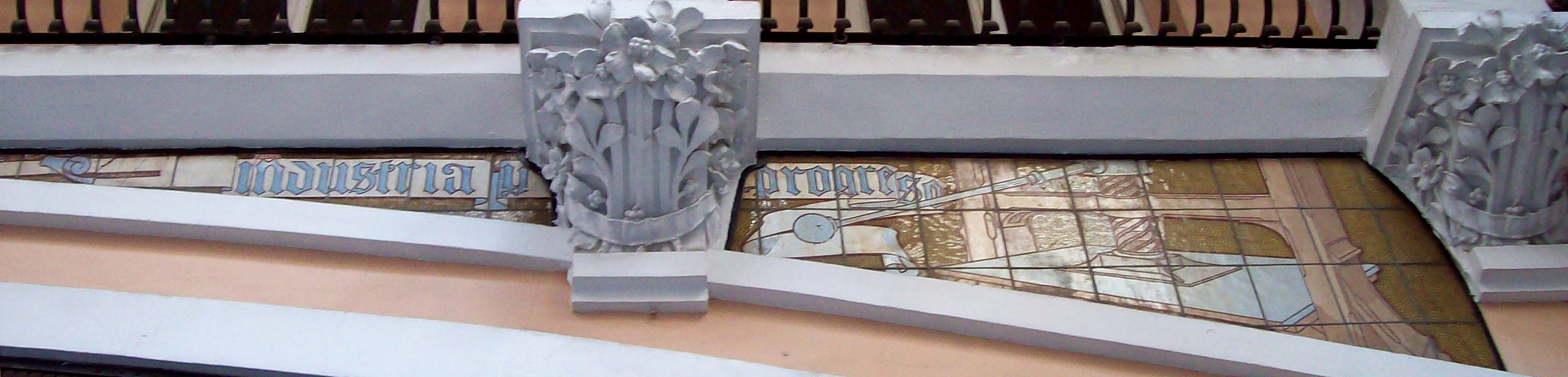 Detail of the headquarters of Semanario Nuevo Mundo (a weekly paper) in Madrid (Spain).